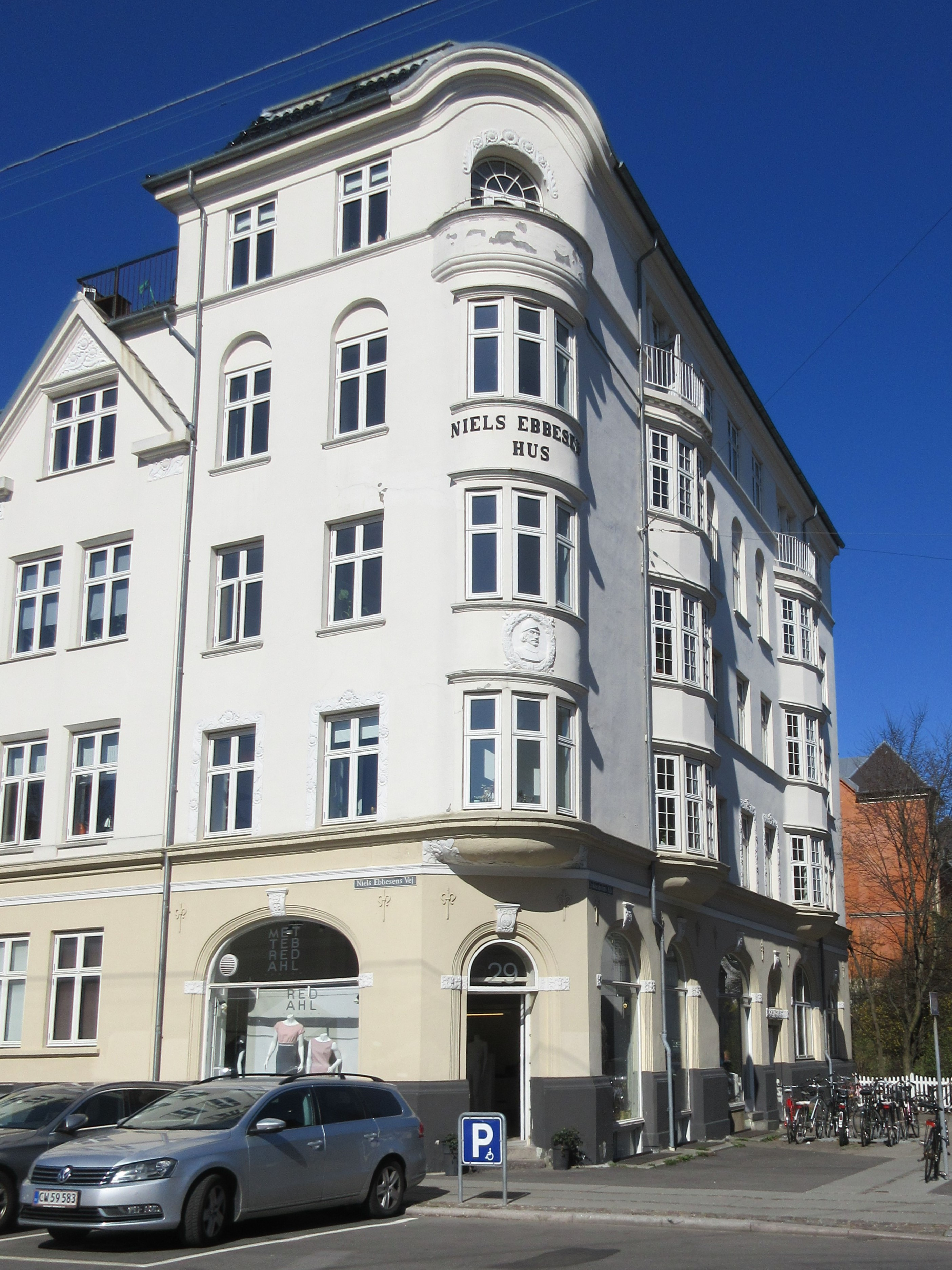 Niels Ebbesens Hus at the corner of Niels Ebbesens Vej and Lykkesholms Allé in Frederiksberg, Denmark